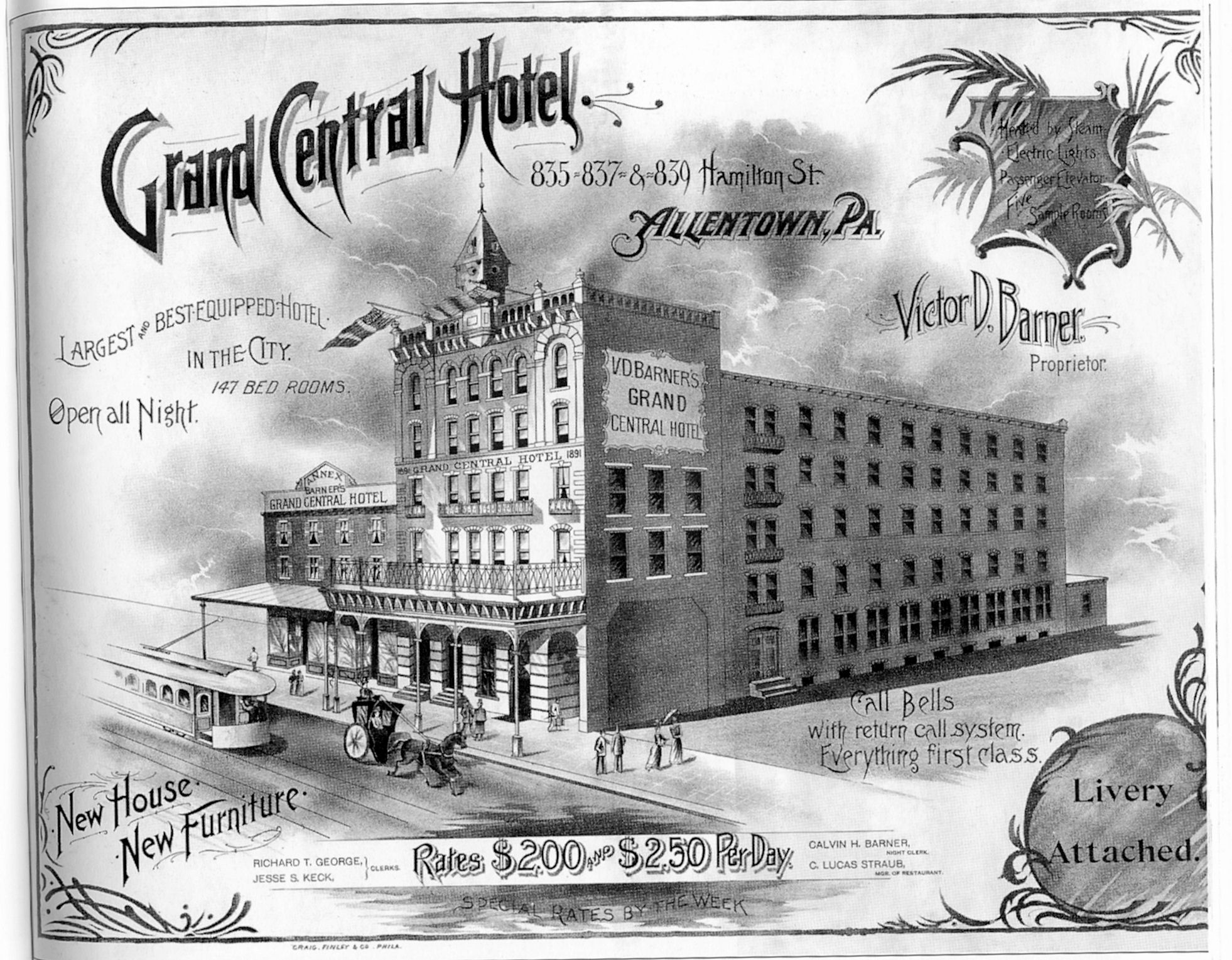 Grand Central Hotel, Allentown, Pennsylvania, 1900. The hotel was named the "Black Bear Hotel" until 1890, then renovated and expanded. Until 1891, travelers would be brought to the hotel on horse-drawn streetcars from the Allentown Railway Stations at 3d and Hamilton Streets. Primarily cated to travelling buisinessmen and unmarried men who came to Allentown to work in the silk or other industries that established themselves in the city after the Civil War. The Grand Central Hotel was where Max and Charles Hess first rented space for their dry goods buisness in 1897. Later the Hess Brothers would buy the property and turn it into Allentown's largest department store.